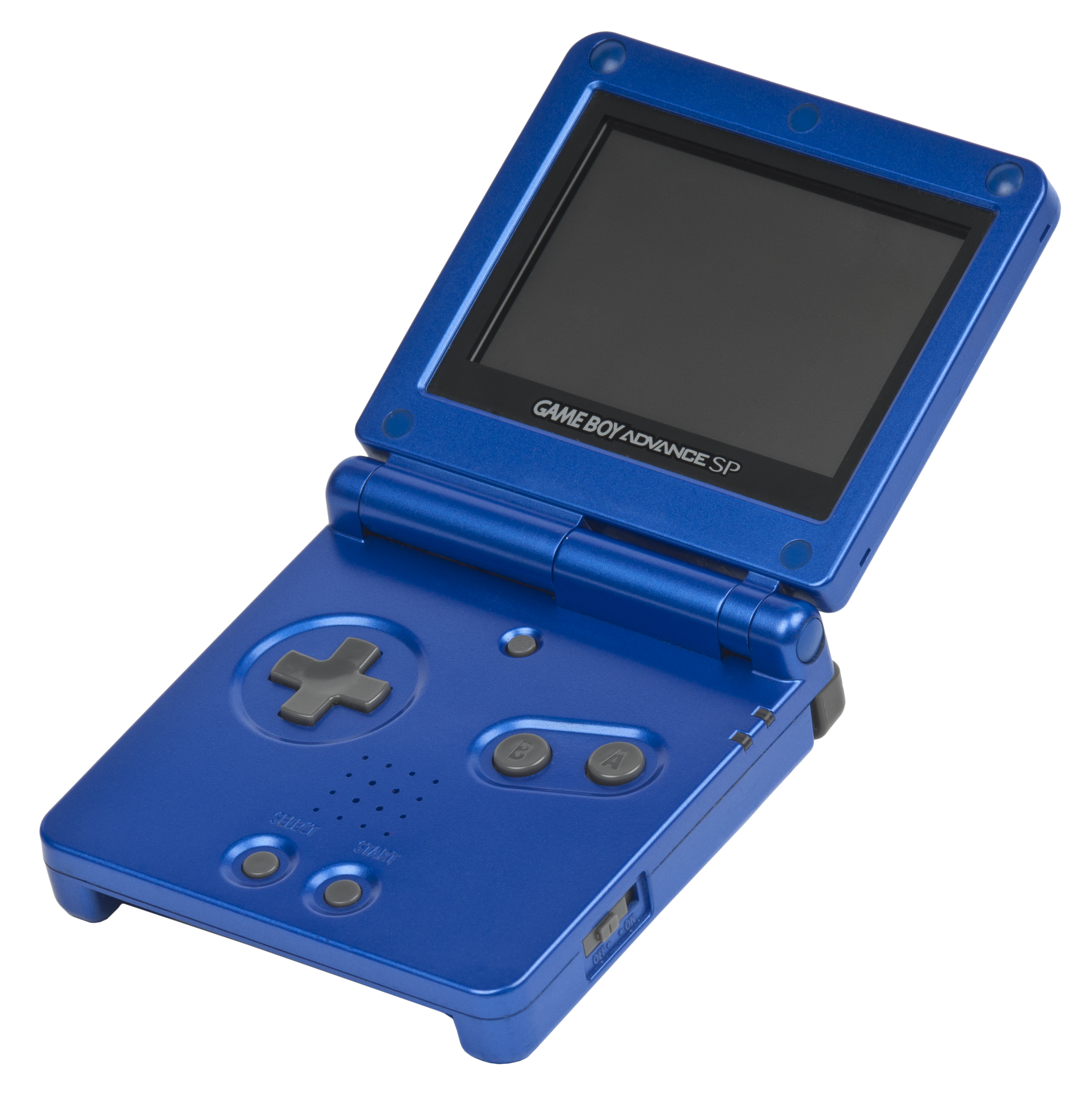 A blue Game Boy Advance SP, a handheld game system made by Nintendo. This is a Mark 1 model that incorporated a front-lit screen.